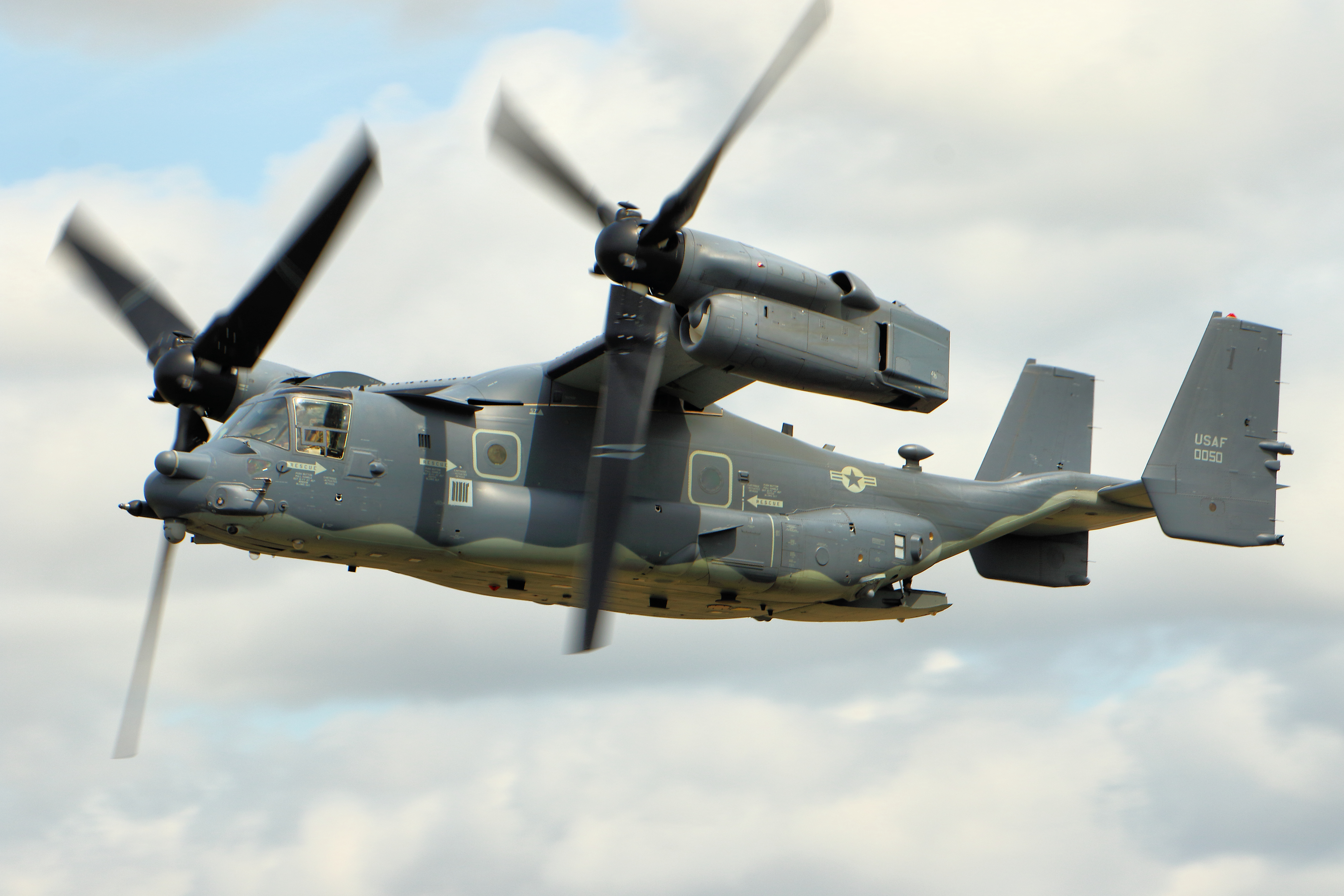 CV-22 Osprey - RIAT 2015